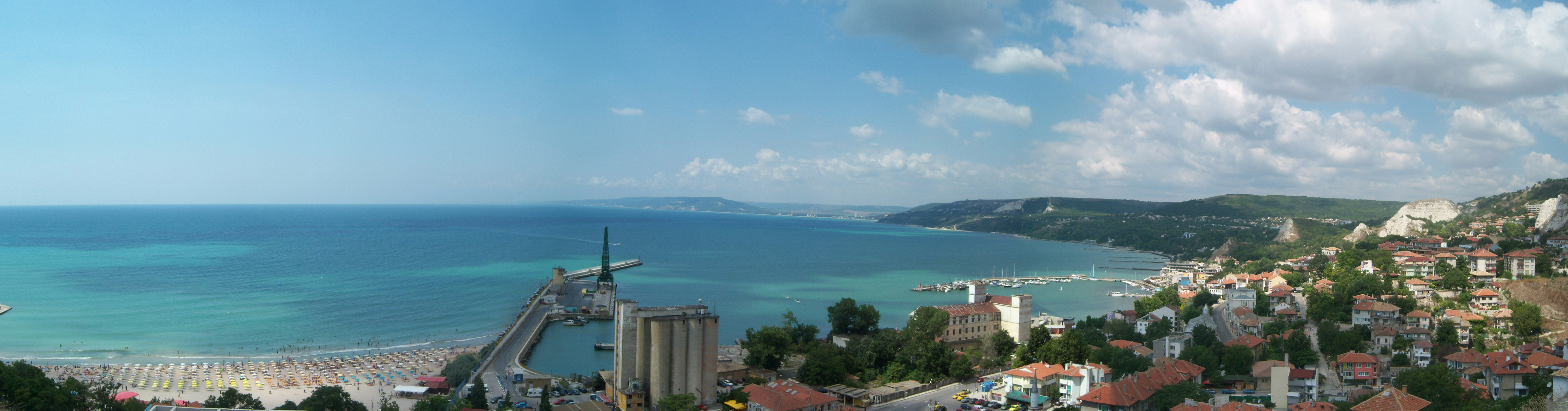 Panorama Black Sea, from Balchik, Bulgaria